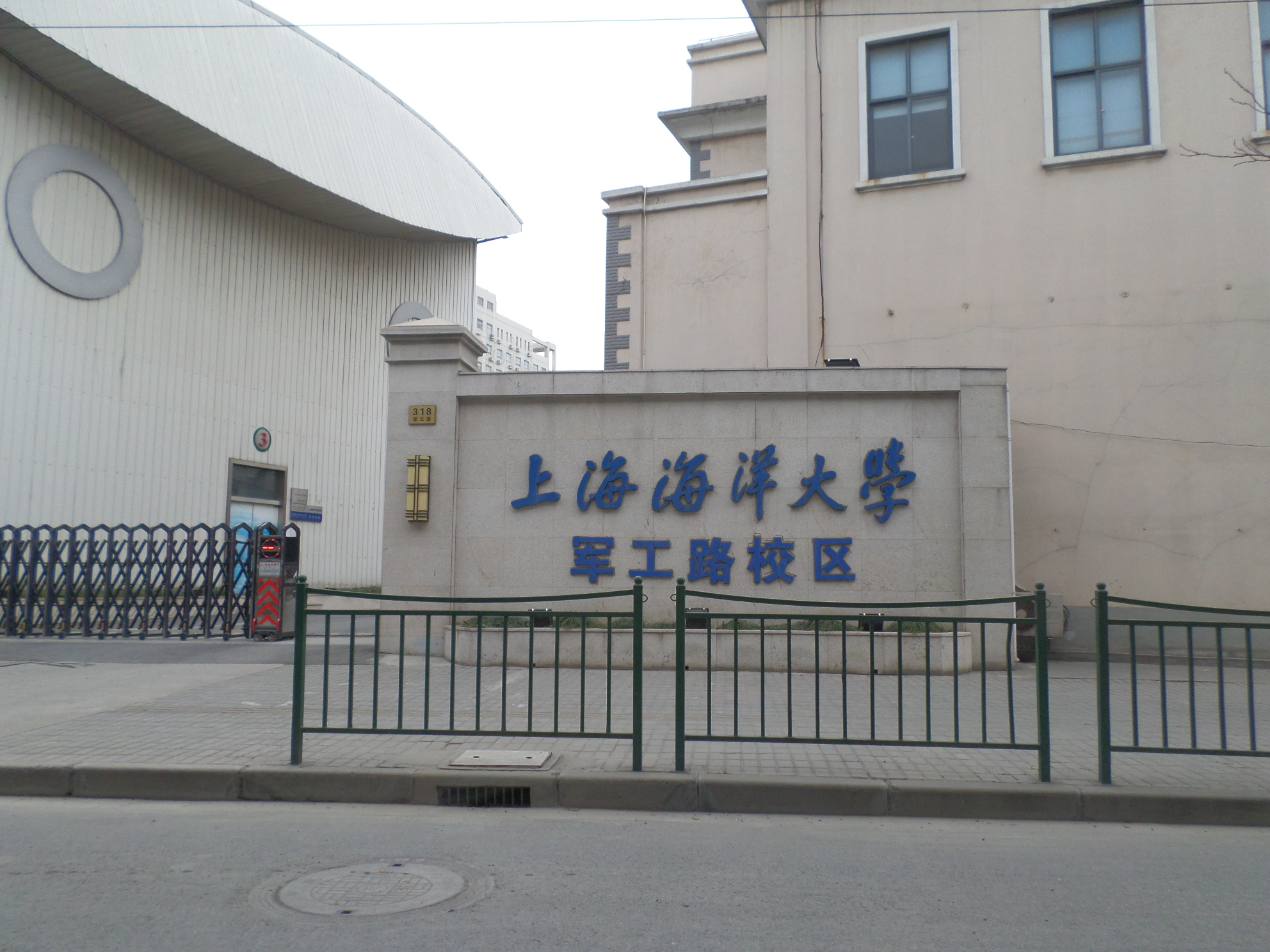 Jungong Road Campus, Shanghai Ocean University, Yangpu District, Shanghai, China